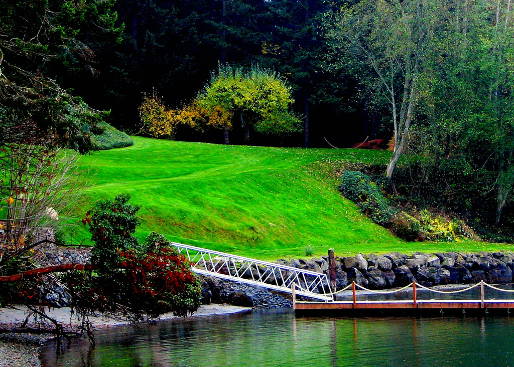 Bainbridge Island, WA